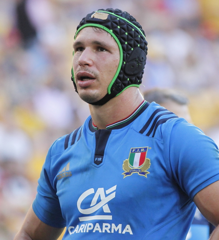 2017.06.24.16.08.27-Francesco Minto The 2017 mid-year rugby union internationals, 24 June 2017, Australia vs Italy at Suncorp Stadium, Brisbane